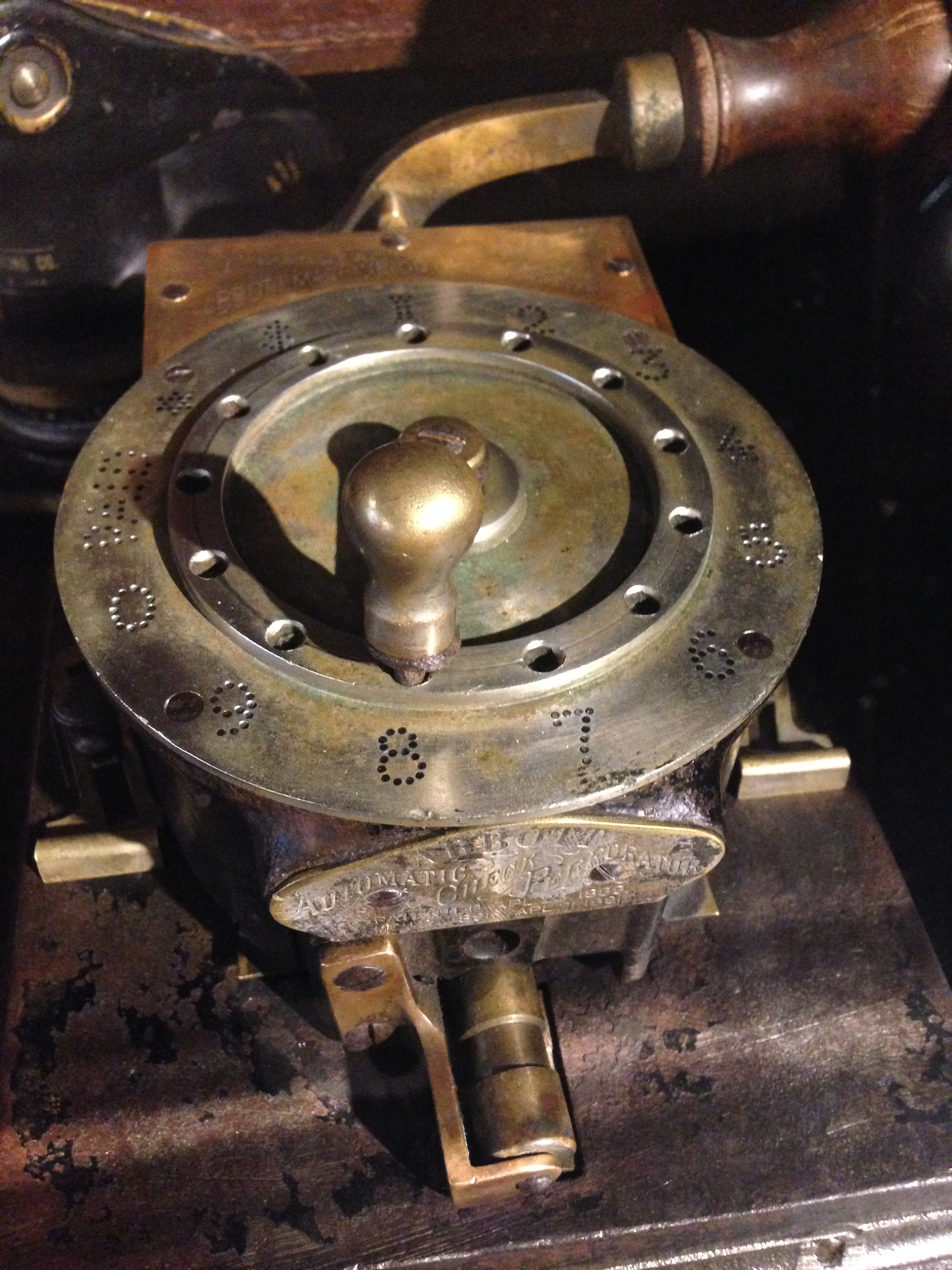 Abbott Automatic Check Perforator